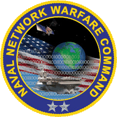 Logo of the US Naval Network Warfare Command.